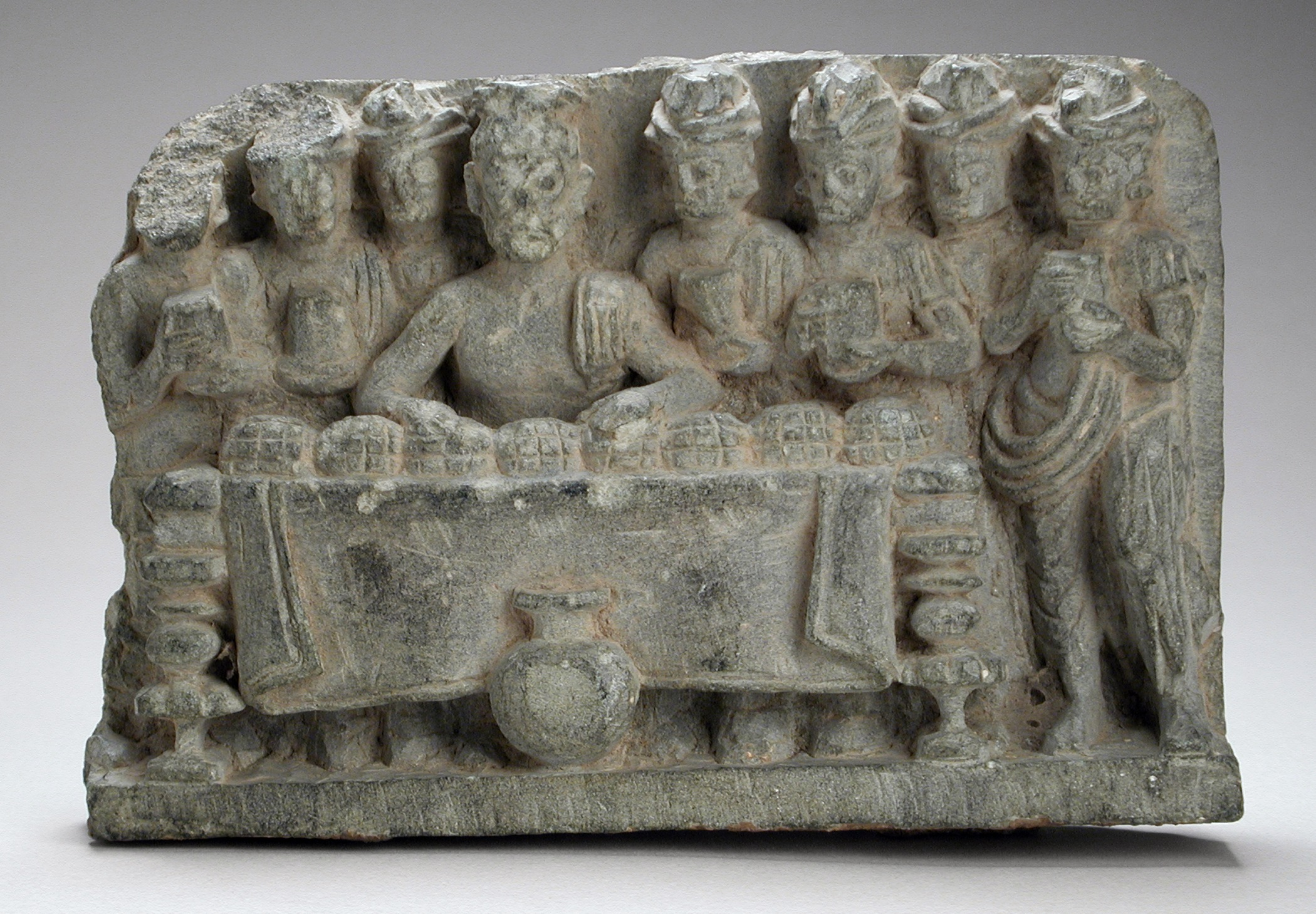 Pakistan, Gandhara region, 2nd-3rd century Sculpture Schist Indian Art Special Purpose Fund (M.84.151) South and Southeast Asian Art